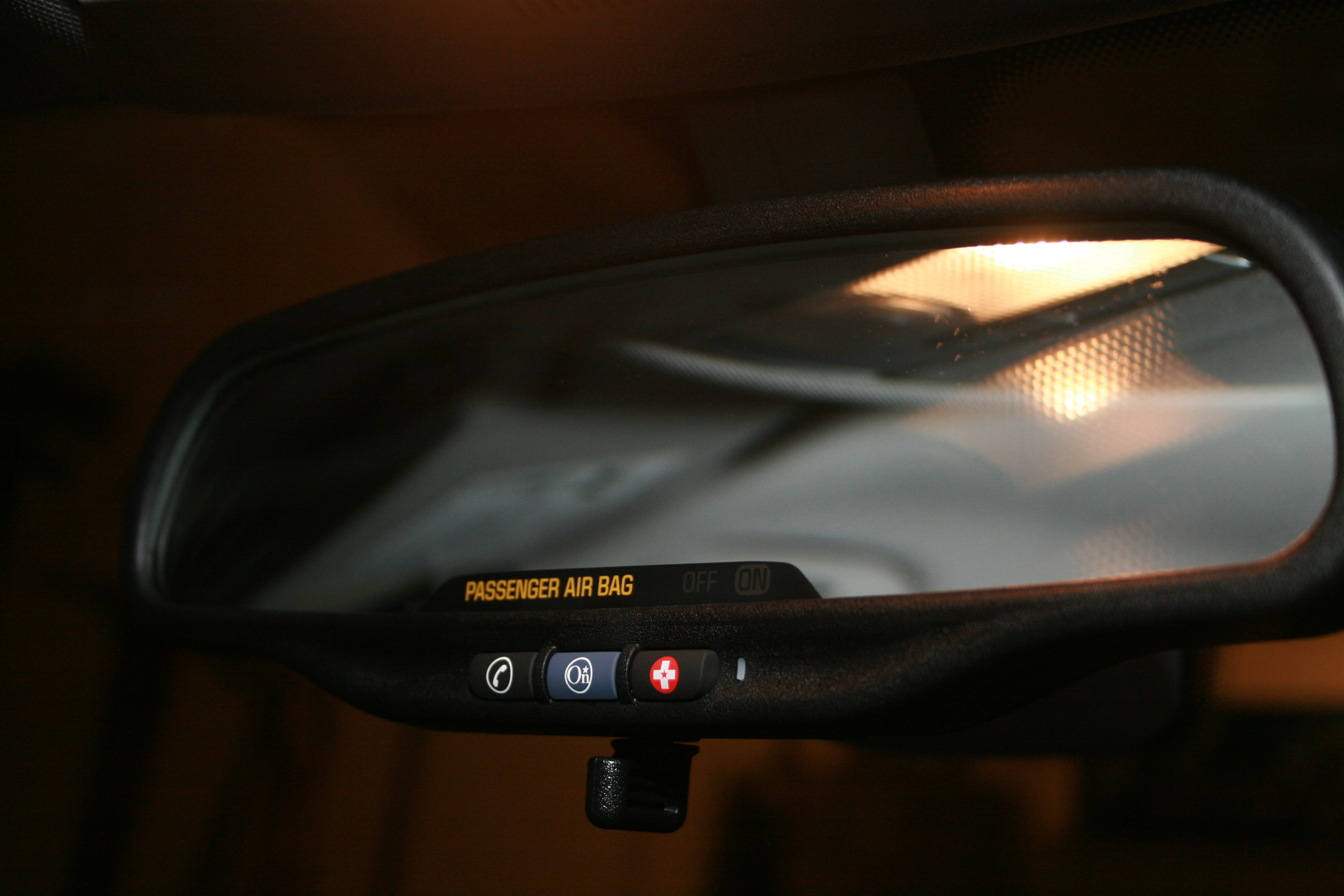 OnStar